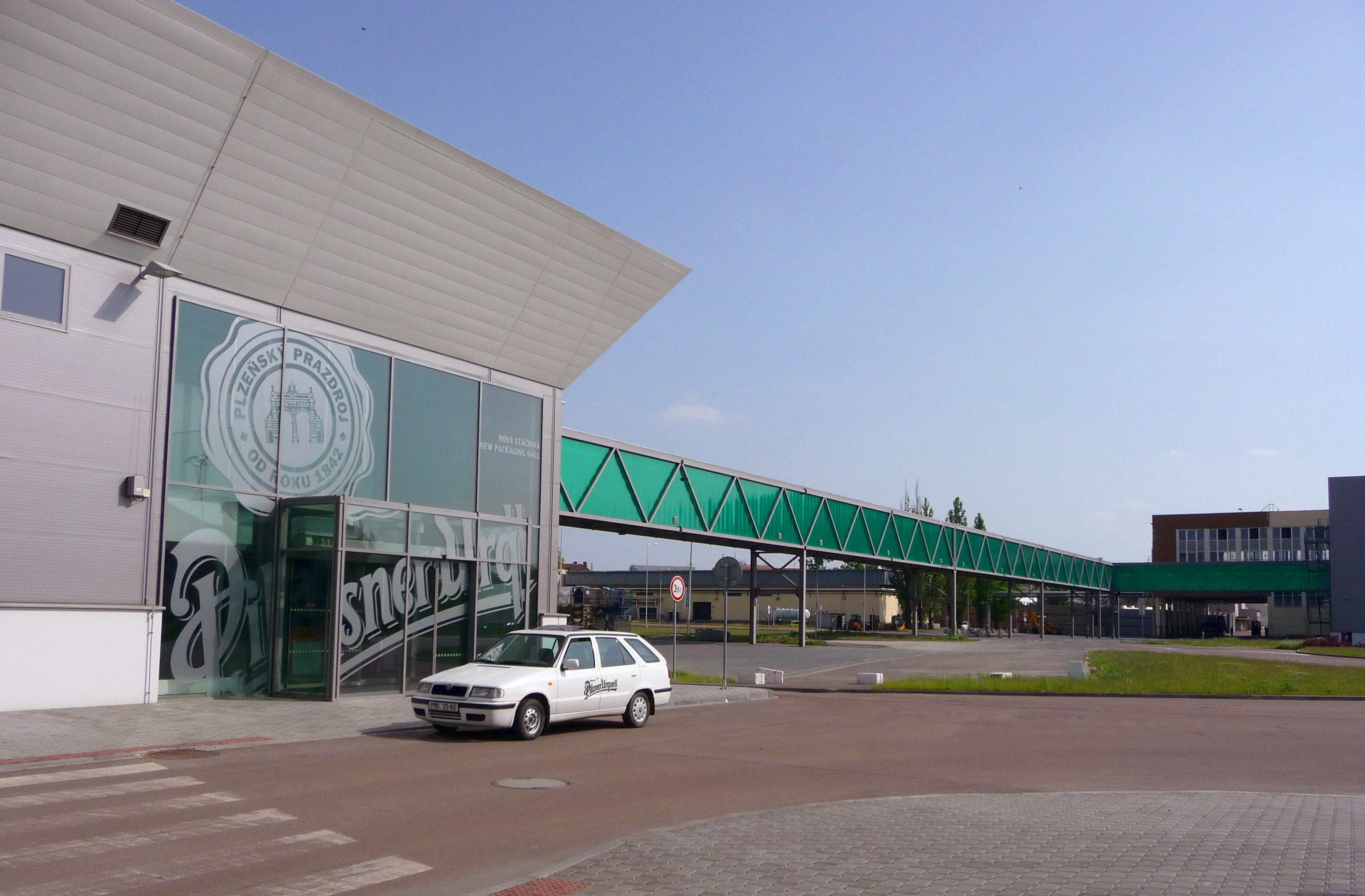 Plzeňský Prazdroj - New Packaging Hall (Nová stáčírna). The beer is conveyed to the building through pipes in the elevated green enclosure.